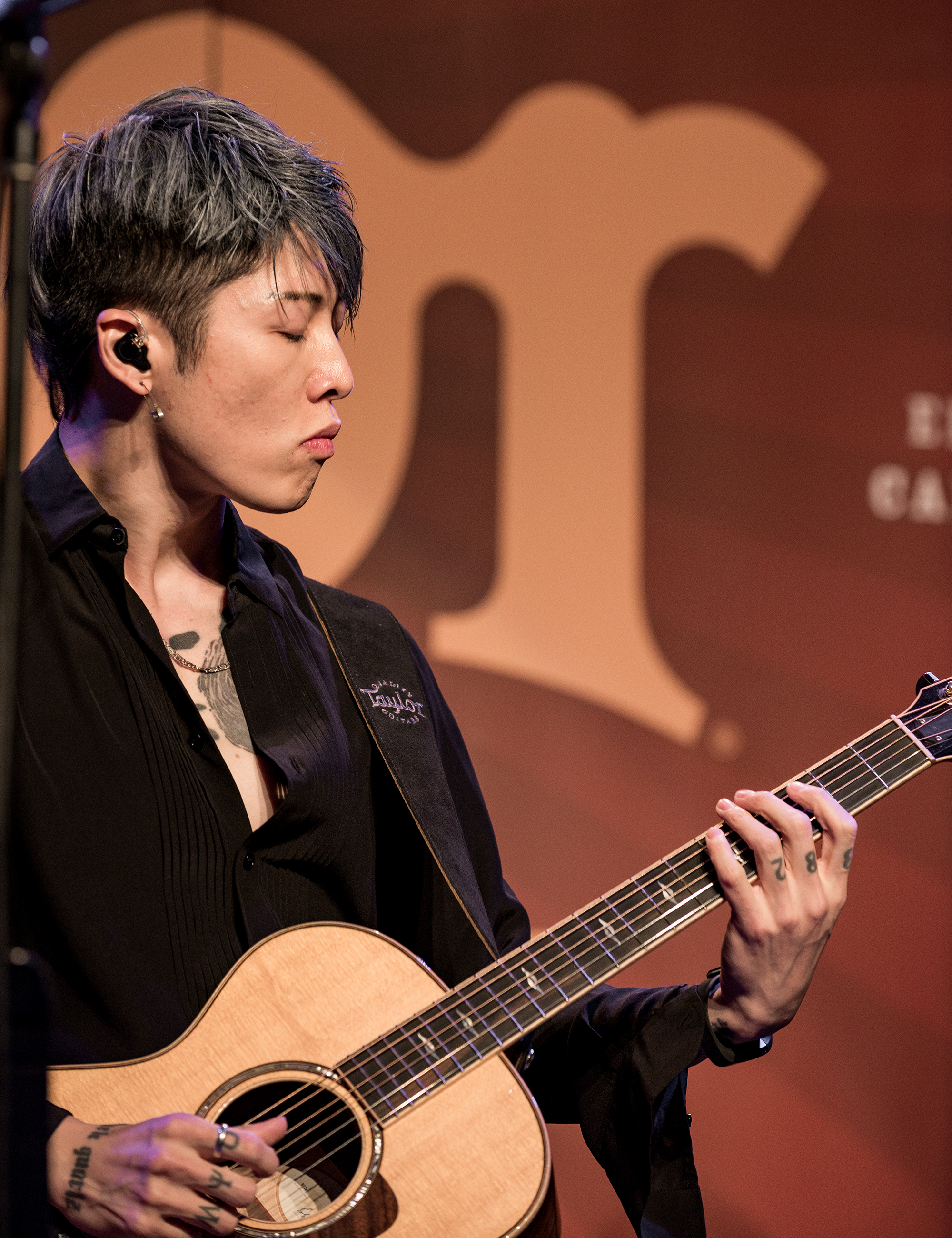 Miyavi performing in the Taylor Guitars showroom at the Winter NAMM Show in Anaheim, Orange County, California, on Saturday, January 27, 2018.